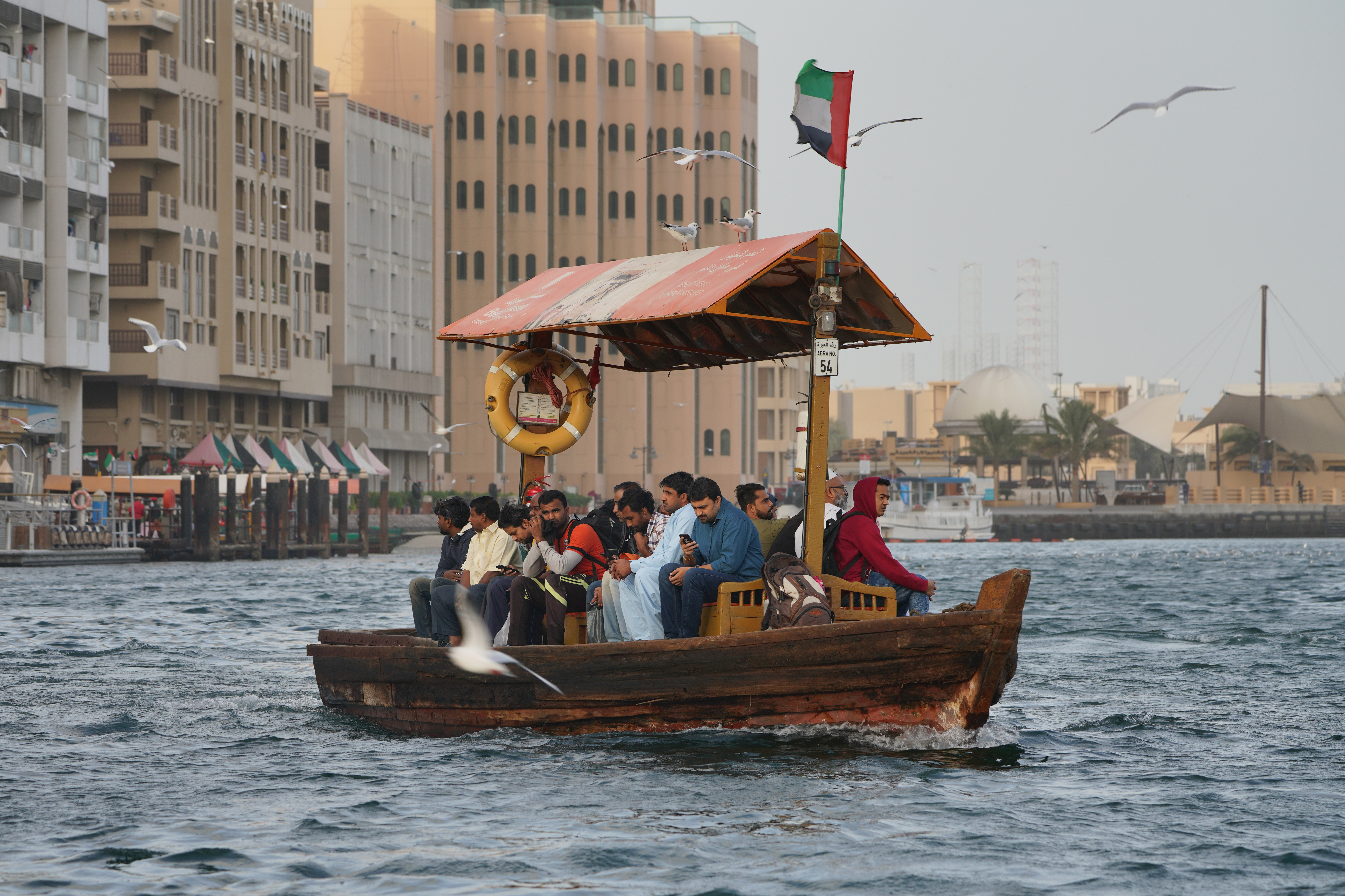 Abra on Dubai Creek in Dubai / United Arab Emirates